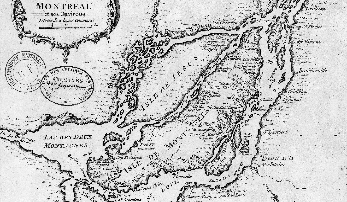 This is a detail of the original source map, cropped to depict primarily the Isle of Montreal and immediately surrounding mainland. The map's caption reads "Montreal et ses Environs" (Montreal and its environs).